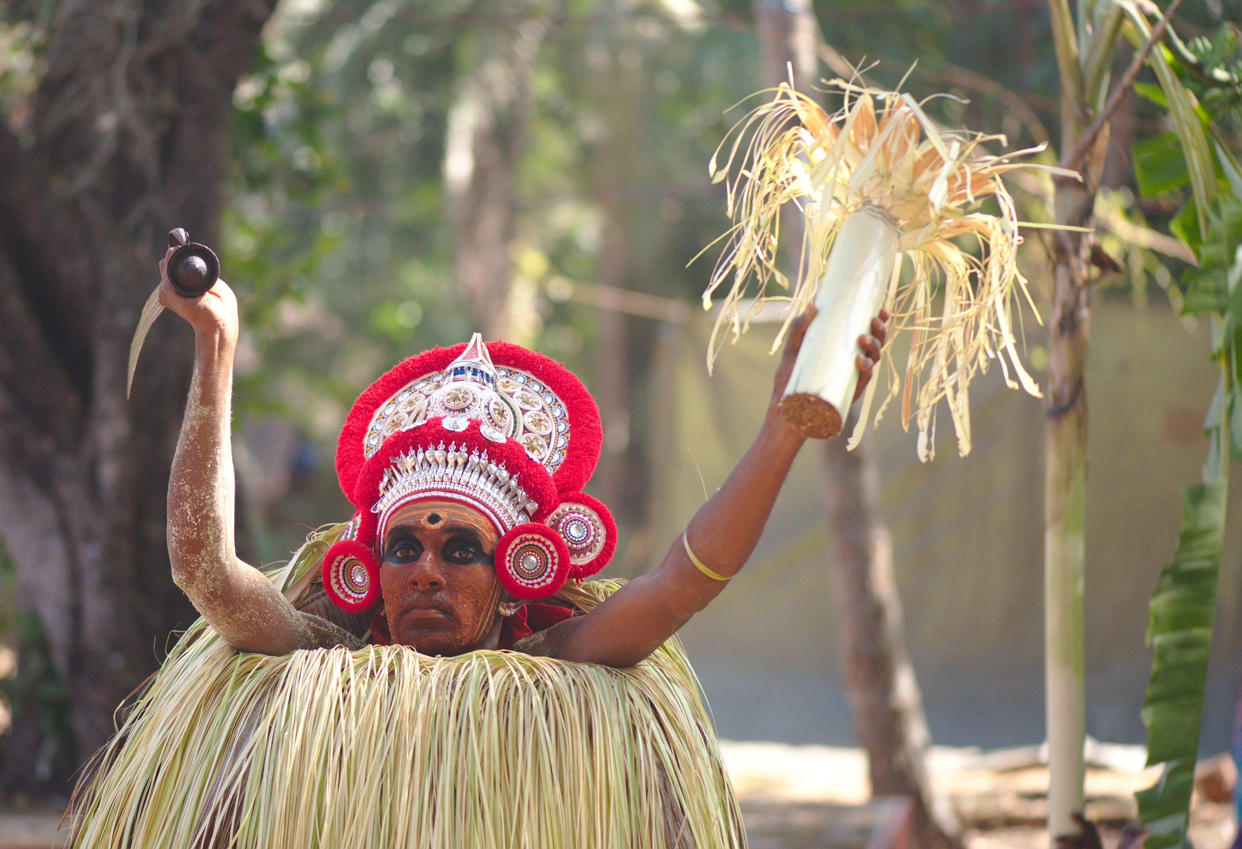 Ucheli is a theyyam peformed very rarely and secretly in few areas of North kerala. This theyyam performs lots of rituals and animal sacrifices , mostly of rooster.